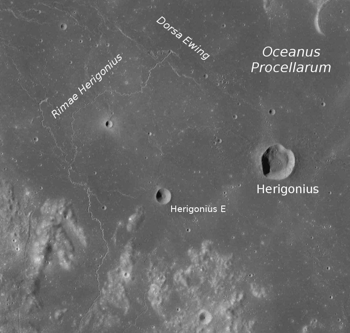 Crater Herigonius with Rimae Heridonius and Dorsa Ewing (detail of LRO - WAC global moon mosaic; Mercator projection)